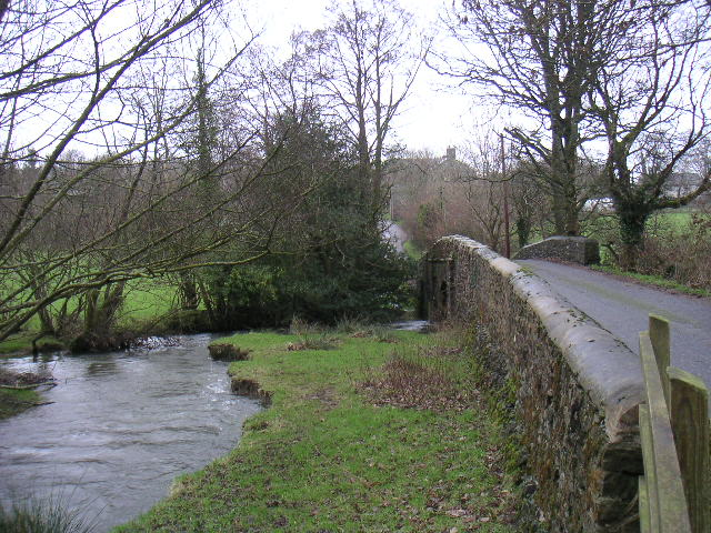 Bridge over the Cerdin - Tregroes